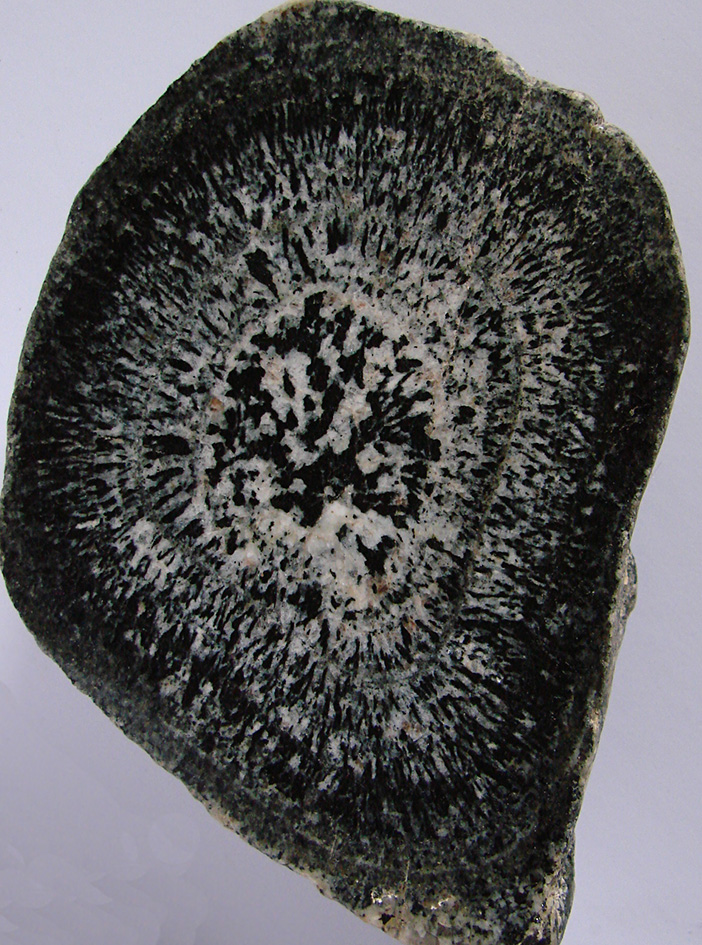 Orbicular-textured diorite. Sample is 13x10cm in size.